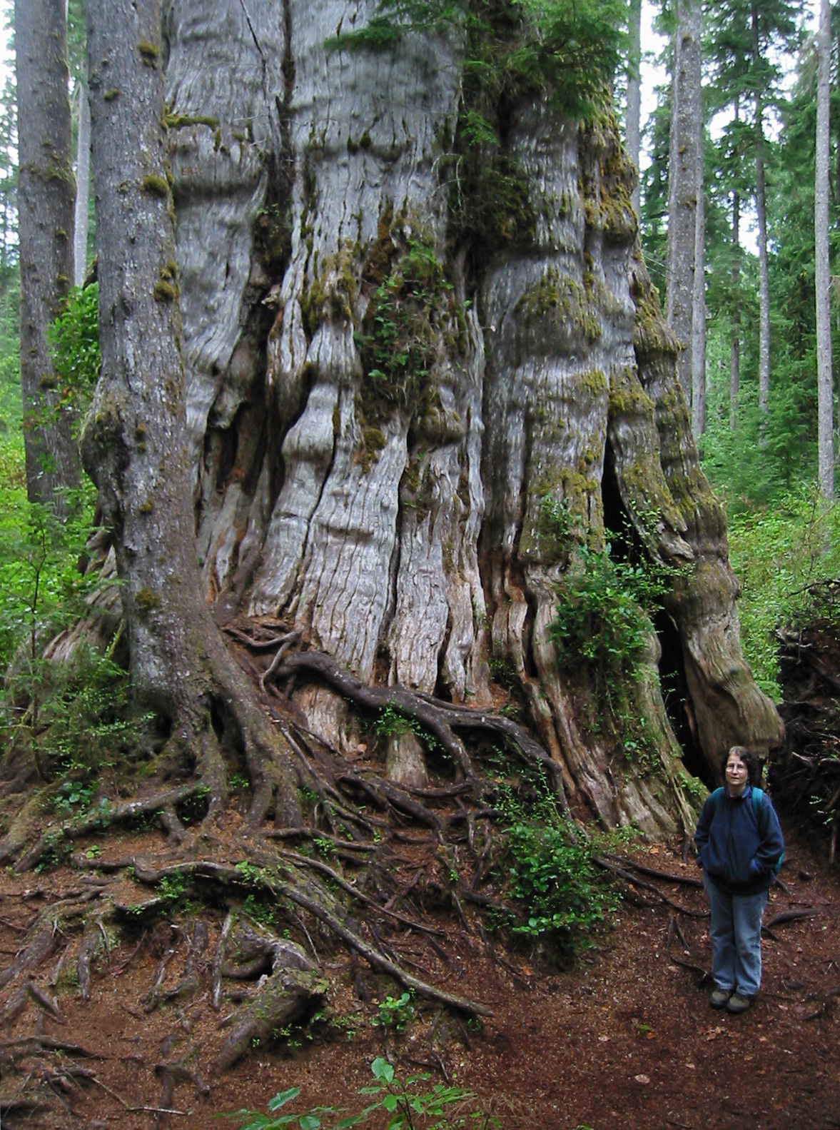 The largest known Western Redcedar, in the world with a wood volume of 500 cubic meters (17650 cu. ft.). It is 53.0 m (174 ft) high with a diameter of 5.94 m (19.5 ft.) at 1.37 m (4.5 ft.) above the ground. (Van Pelt, Robert, 2001, Forest Giants of the Pacific Coast, University of Washington Press.) Viewpoint location: Near the northwest shore of Quinault Lake north of Aberdeen, Washington, about 34 km (21 miles) from the Pacific Ocean. It is near Higley Creek in the southwest corner of Olympic National Park. Viewpoint elevation: 400' View direction: North Camera: Canon PowerShot S110 Photographer: Walter Siegmund ©2005 Walter Siegmund